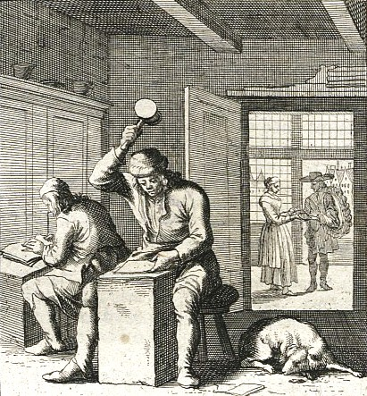 Extracted the engraving of goldbeating from the page scan.